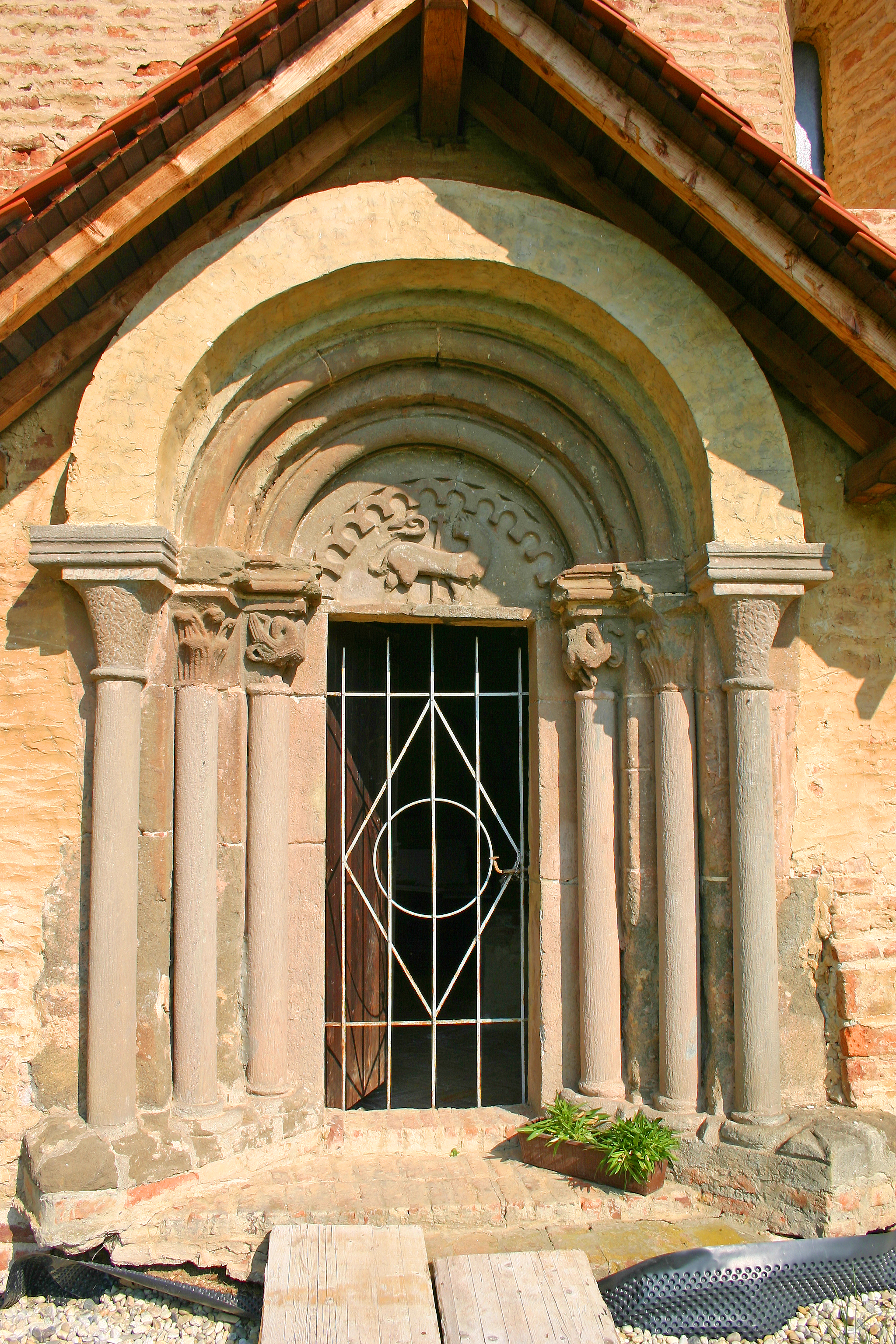 St. Martin's Church, Domanjševci. The Romanesque portal with a lunette.